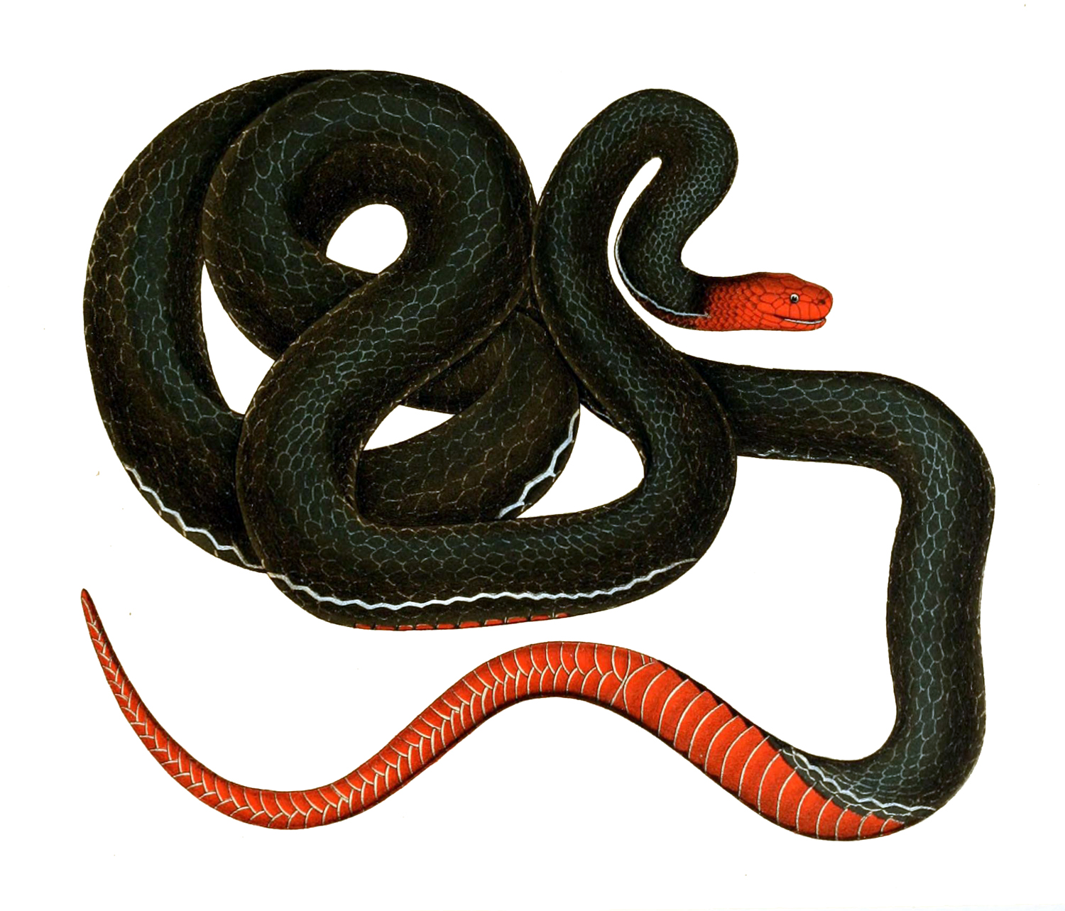 Calliophis bivirgatus